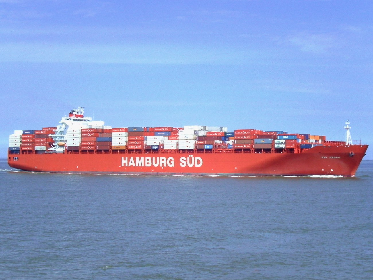 The container ship Rio Negro of Hamburg Süd inbound on the river Elbe near Cuxhaven